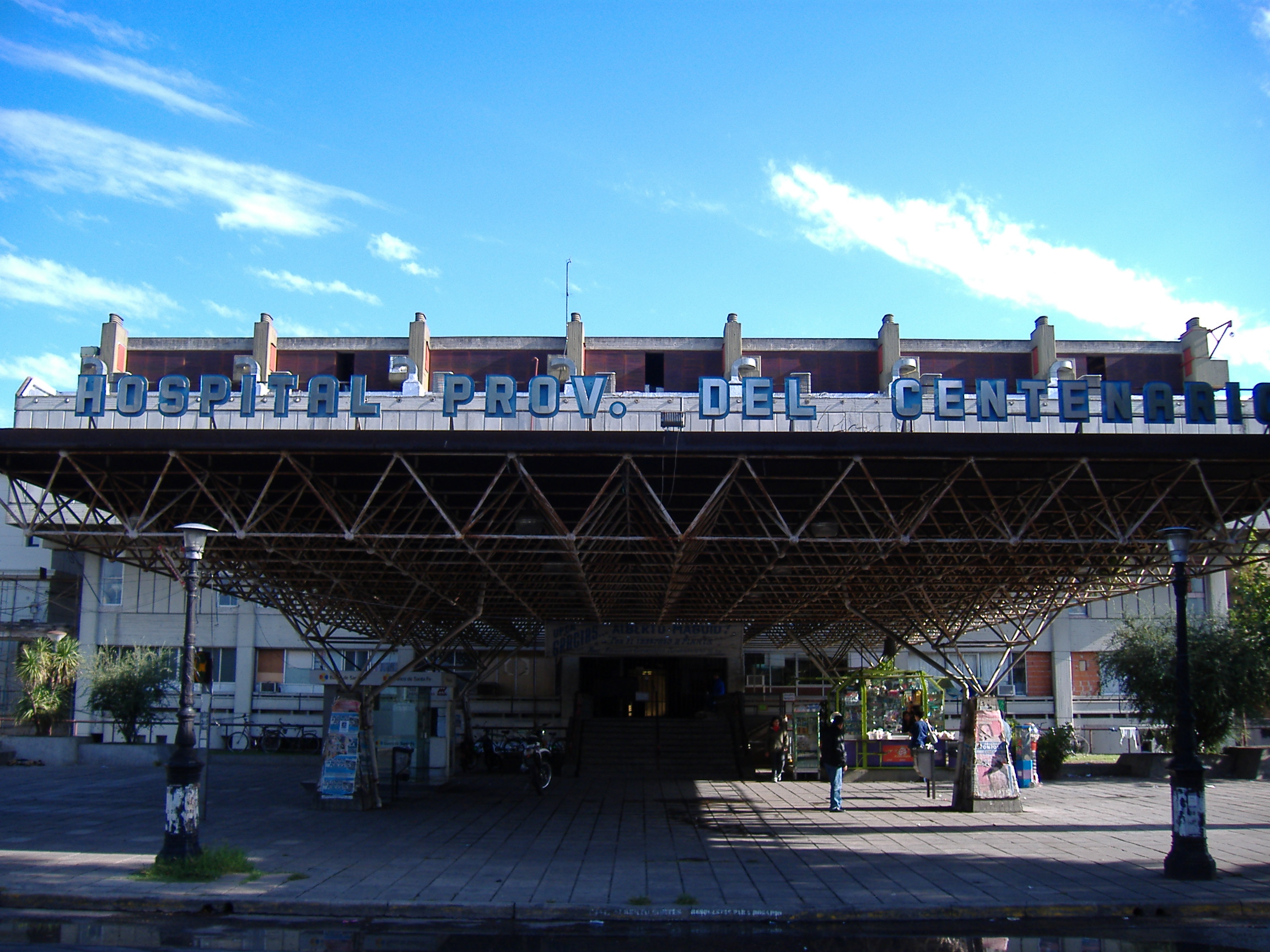 Hospital Provincial del Centenario (Centennial Provincial Hospital), one of the two large public hospitals of Rosario, Argentina. This hospital was built in the first years of the 20th century, its name an hommage to the 100th anniversary of the Revolution of 25 May 1810. It is located on Urquiza St. and Francia Ave. This picture was taken by Pablo D. Flores on 11 March 2006.